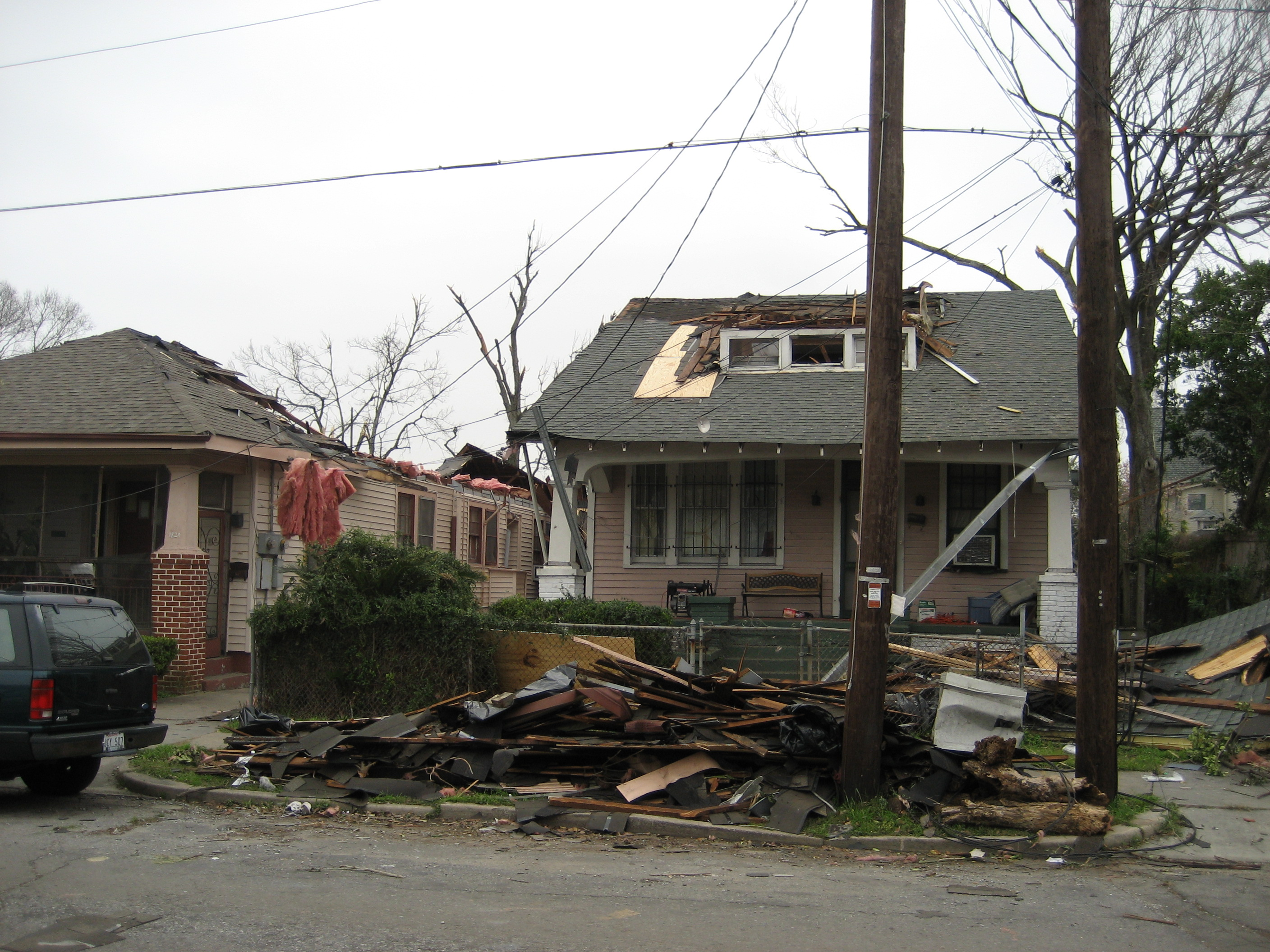 Damage from tornado which hit shortly after 3 am on 13 February 2007 in the Carrollton section of New Orleans.